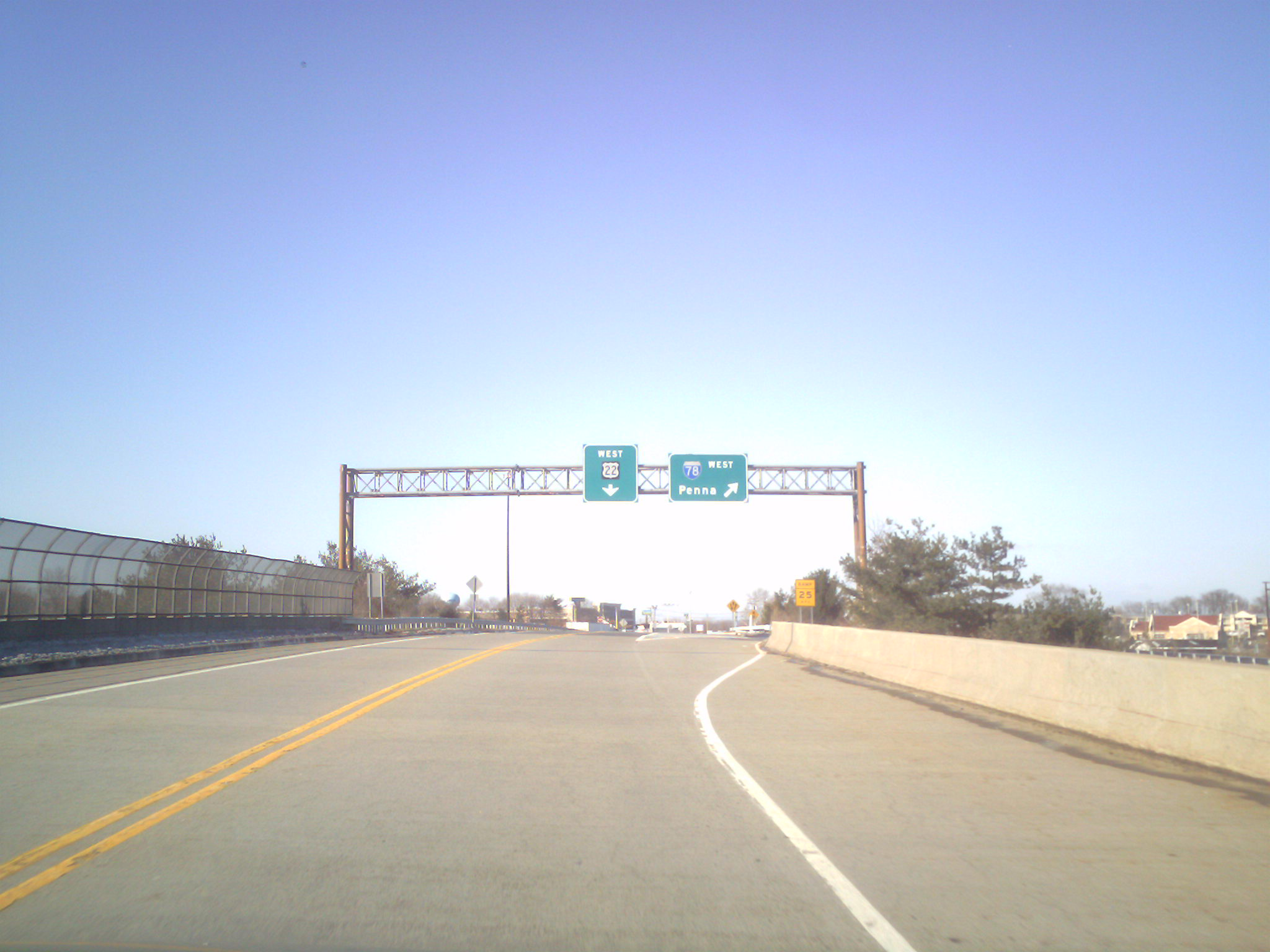 New Jersey Route 173's western terminus on the bridge over Interstate 78 in Pohatcong Township, New Jersey. Route 22 continues along the right-of-way. Interstate 78 is at Exit 3 here.